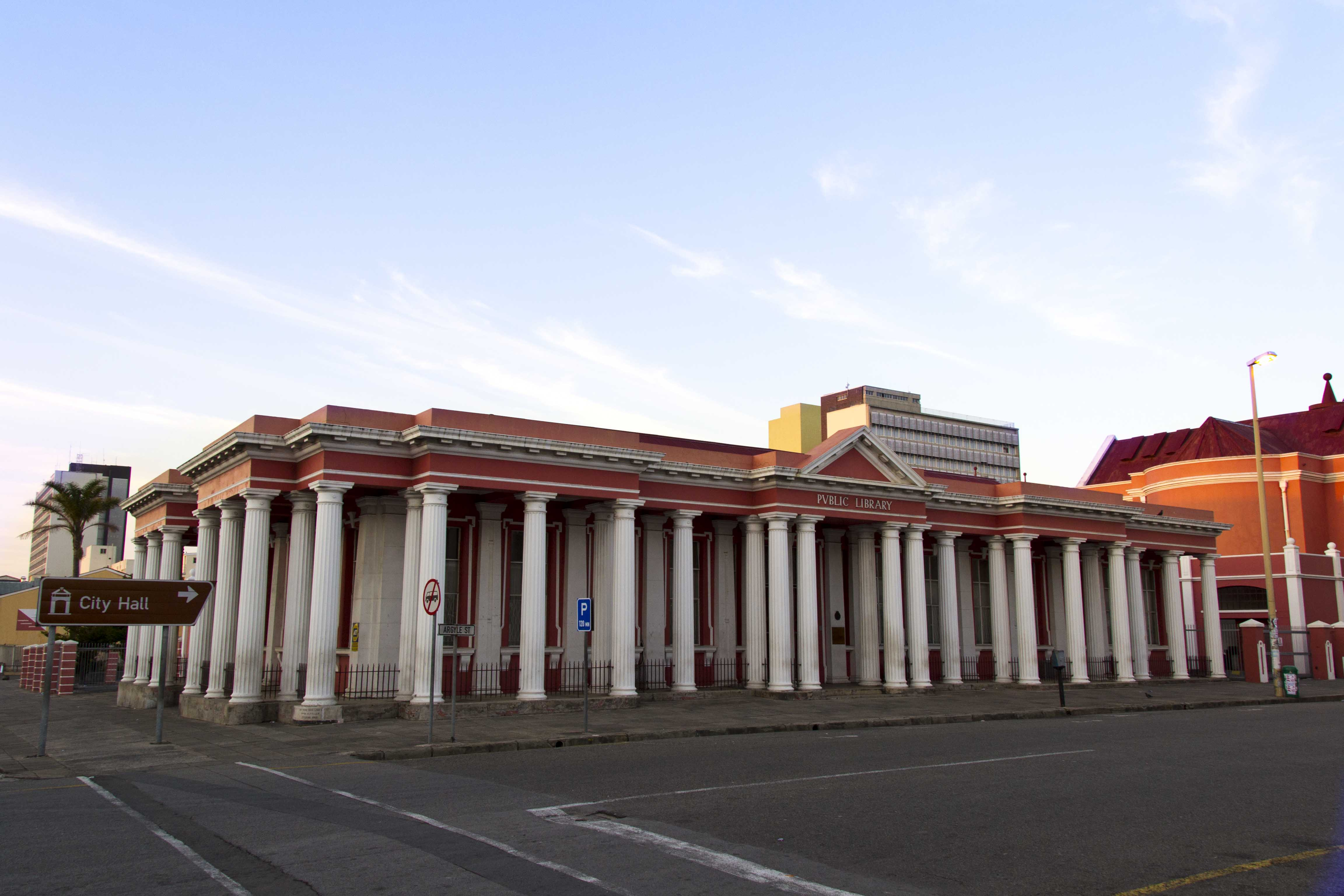 Victorian, neo-classical and Renaissance features, form an integral part of the historical and architectural core of East London, South Africa. This media shows a South African Protected Site with SAHRA file reference 9/2/026/0014.